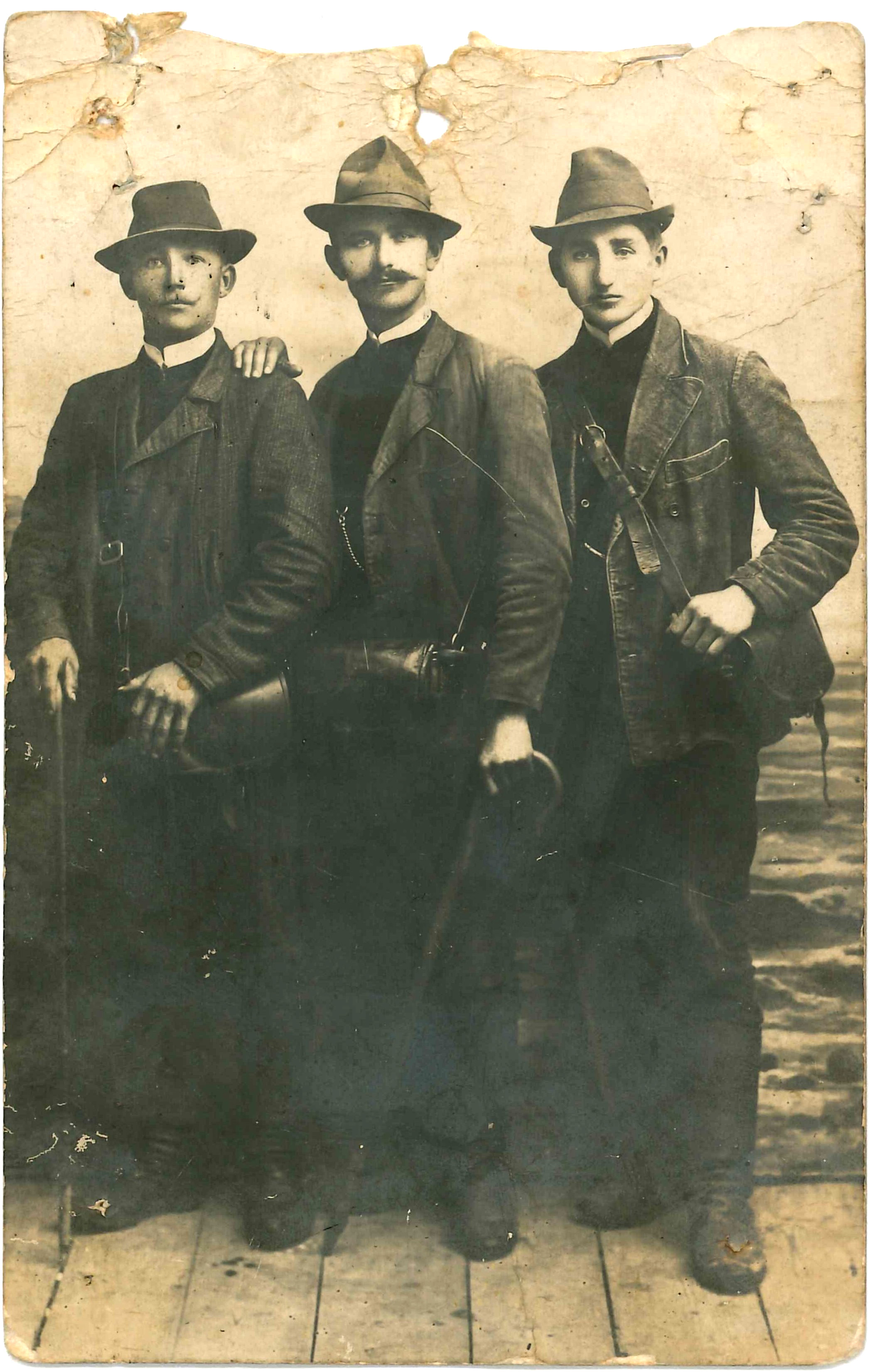 Brothers Albin, Jan and Methodius Bartos from Hostětín made their living from cattle neutering (photo circa 1910).